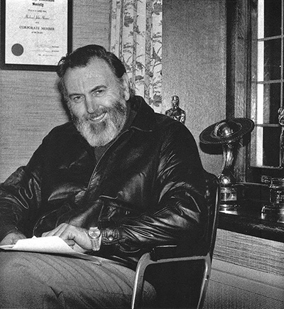 John Stears working on remote controlled R2D2 Unit